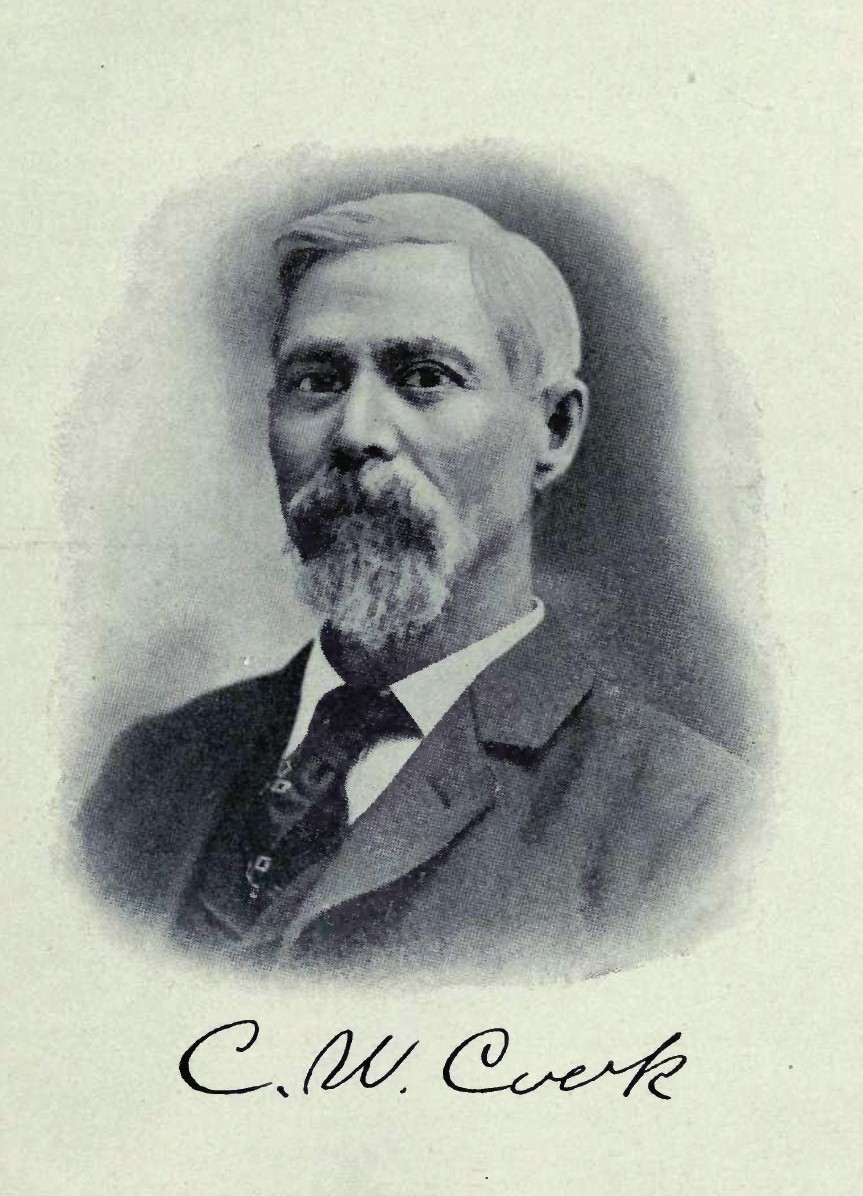 C.W. Cook of the Folsum Expedition (1869) to Yellowstone